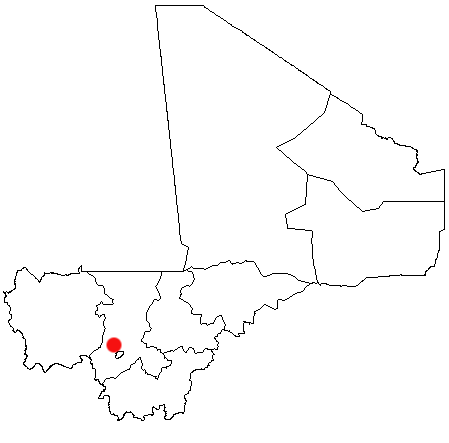 Kati, Mali Location Map; created with the GIMP. Made by User:Acntx.